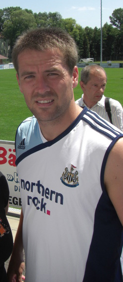 Michael Owen with fan at Stegersbach